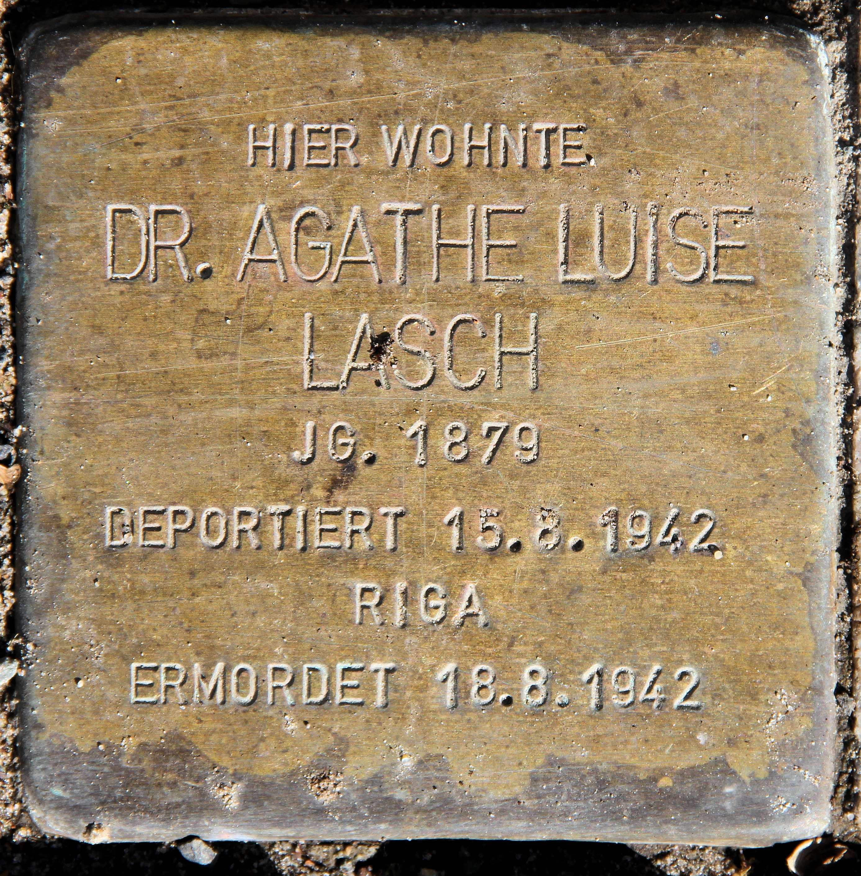 "Stolperstein" (stumbling block), Agathe Luise Lasch, Caspar-Theyß-Straße 26, Berlin-Schmargendorf, Germany